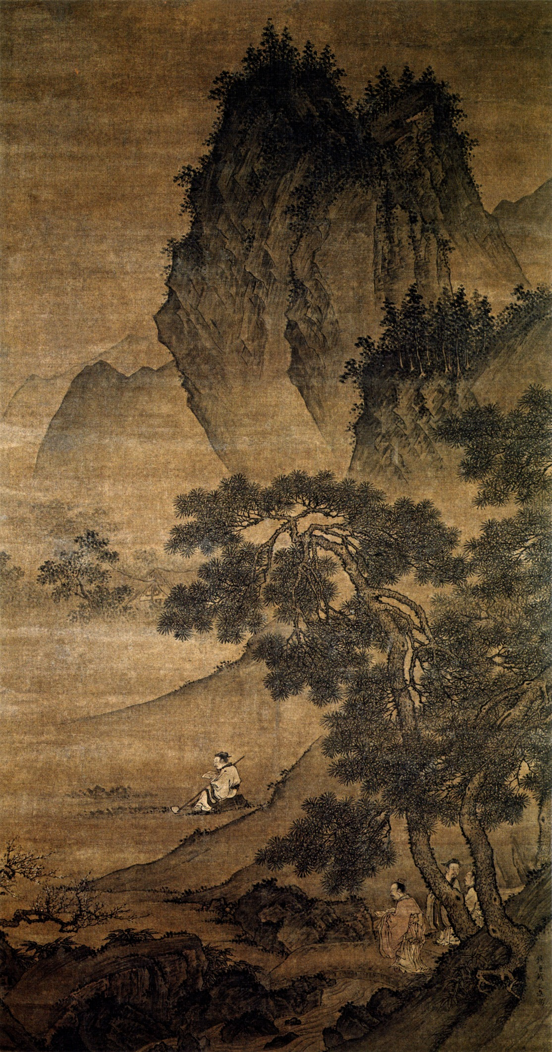 Employing Virtue, hanging scroll, color on silk, 132.5 x 71.5 cm. Located at the Shenyang Palace Museum, Shenyang.